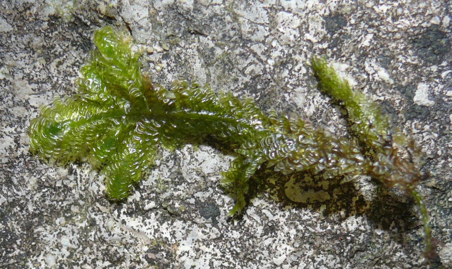 Neckera crispa, Hohenlohe, Germany